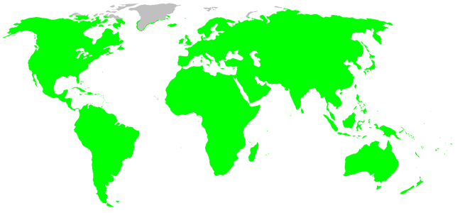 Linyphiidae habitat distribution, drawn after Platnick: World Spider Catalog 7.0. This is not a precise rendering of the distribution! If you have better information, please replace this map, or send me the info, and i will redraw it.